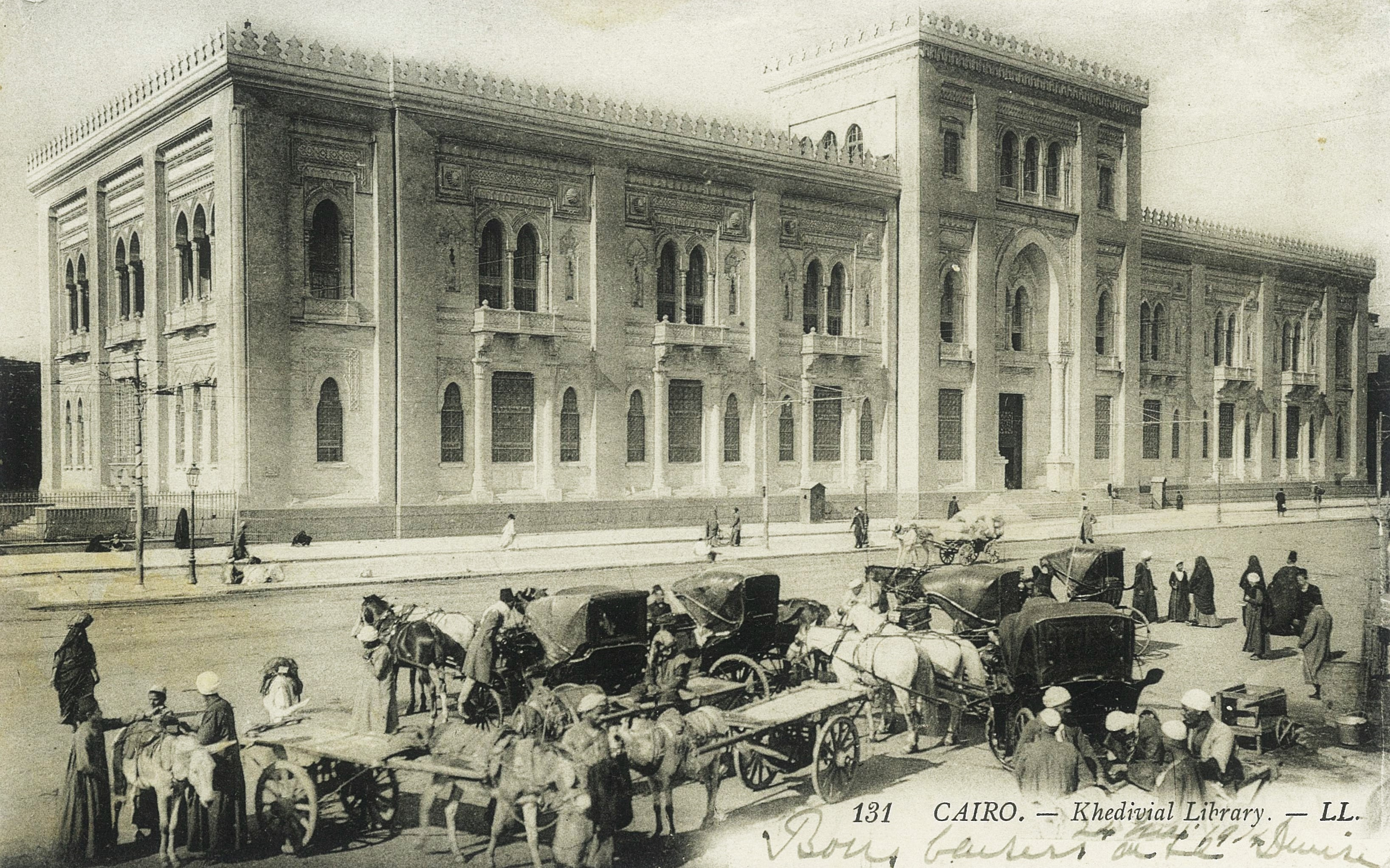 The new building of the Arab Museum. Postcard c. 1905. It also housed the Khedivial Library on the first floor.